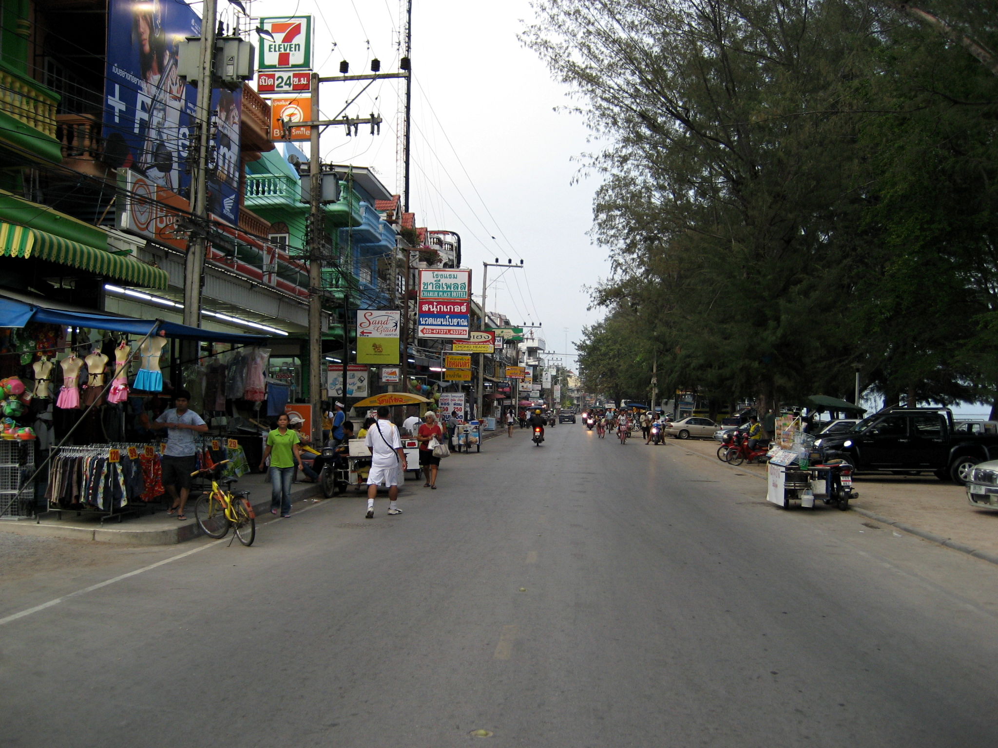 Cha Am Beach Road in Thailand